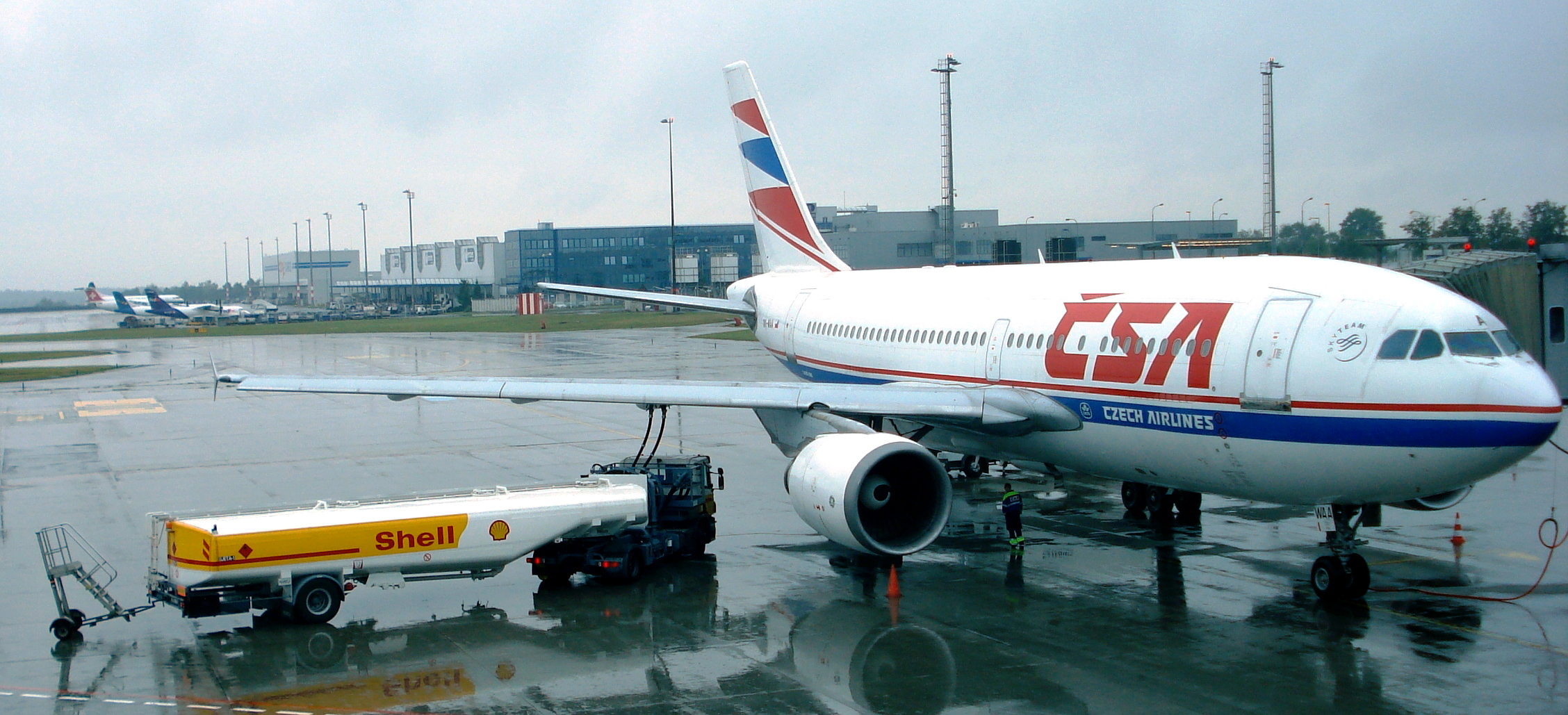 Czech Airlines Airbus A310 being fueled in Prague.